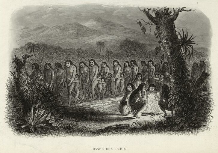 Puri Indians in Brazil, early print, Title Danse des Puris.